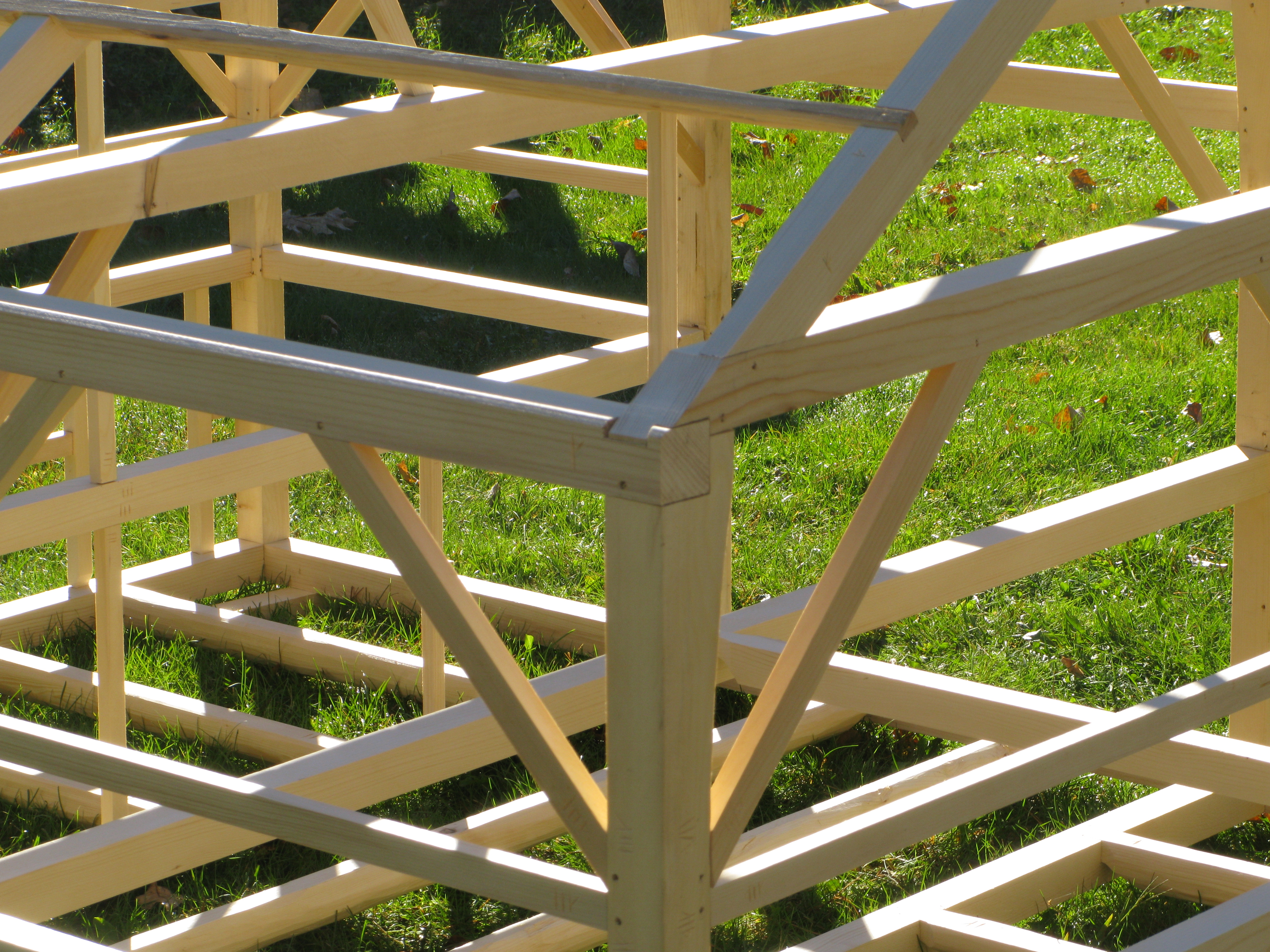 A detail of a corner of the barn model. This is an English tying joint; the post is flared and has two tenons on top, one into the plate and a taller one into the tie beam. The tie beam laps onto the plate and the rafter foot tenons into the tie beam.